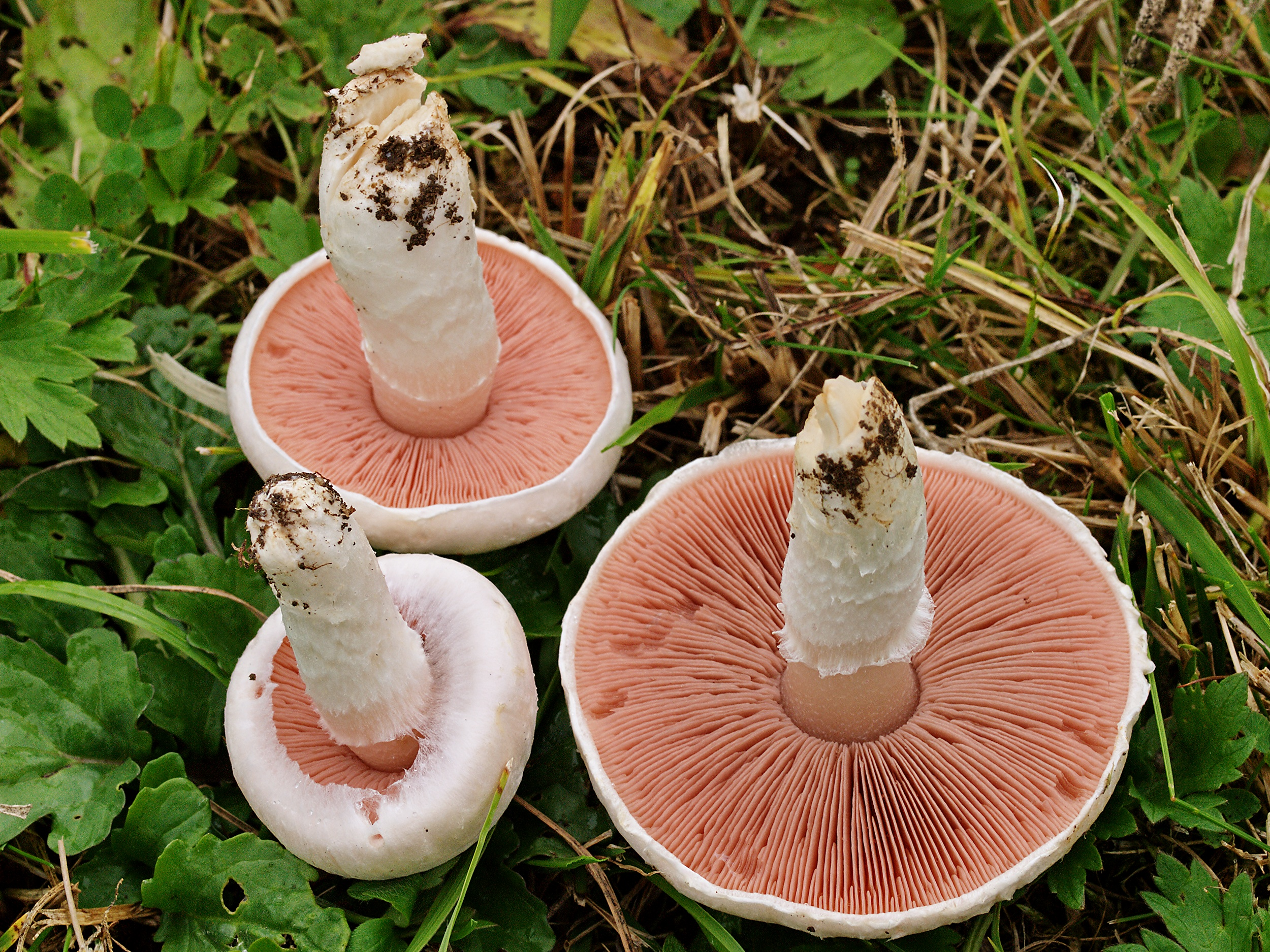 field mushroom (Agaricus campestris)